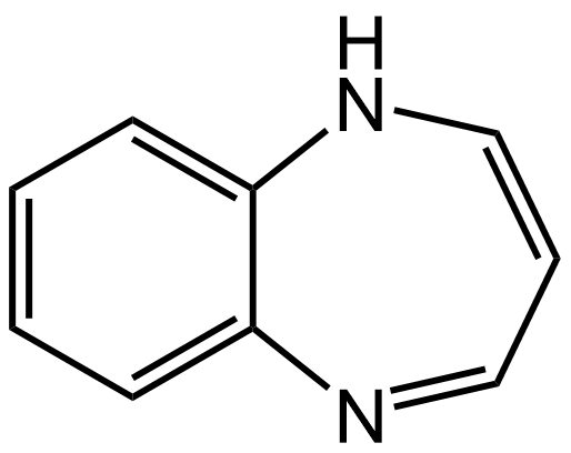 Structure of 1H-benzo[b][1,4]diazepine